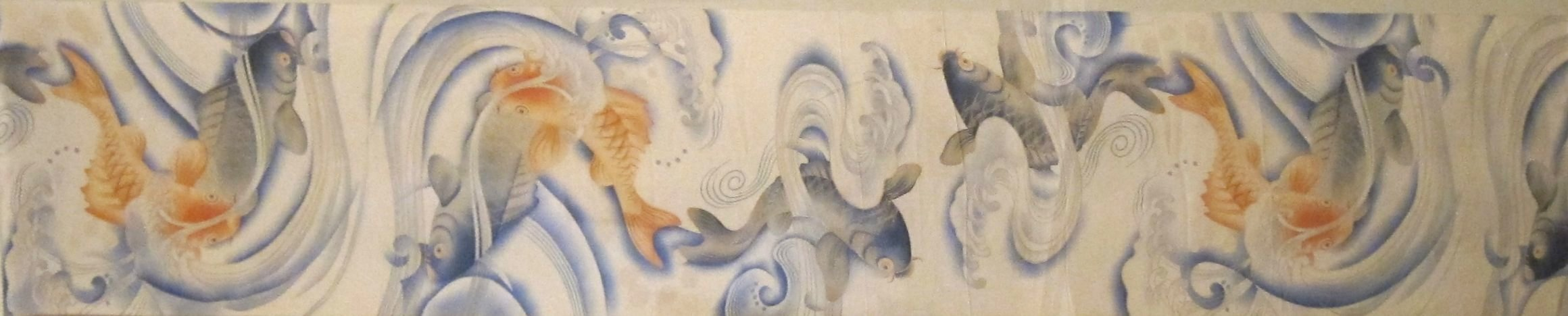 Kimono fabric from Japan, early 20th century, silk, plain weave, yuzen (paste resist, hand painting), Honolulu Museum of Art